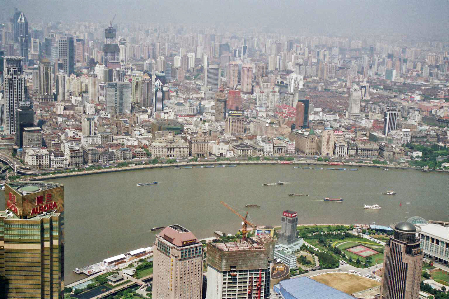 Shanghai, The Bund from Jin Mao (Made some color and contrast enhancements in PhotoShop.)